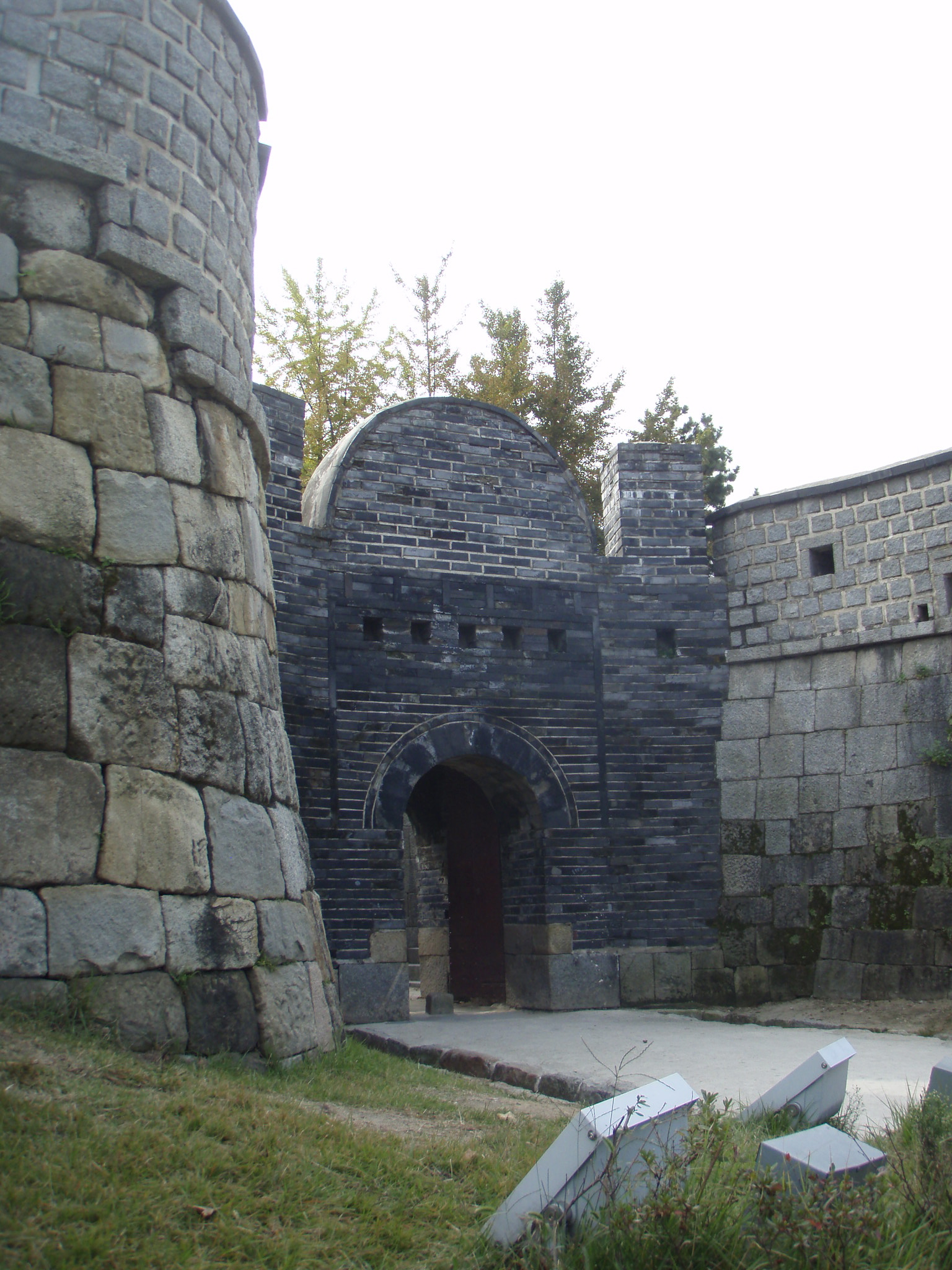 Dongammun, the East Secret Gate. Suwon Hwaseong Fortress